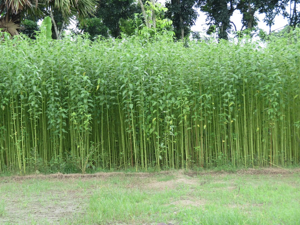 Much like converting flax to linen, Jute is retted -- harvested, defoliated, and soaked in water to allow bacteria to rot away everything but the cellulose fibers, which are then made into twine, rope, and burlap. The plant likes very wet soils and is grown as an alternate crop in rice paddy areas.